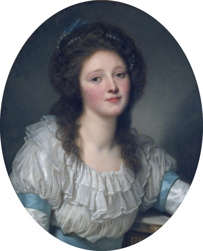 Madame Mercier, wife of Louis-Sébastien Mercier oil on canvas 63 x 52 cm circa 1780